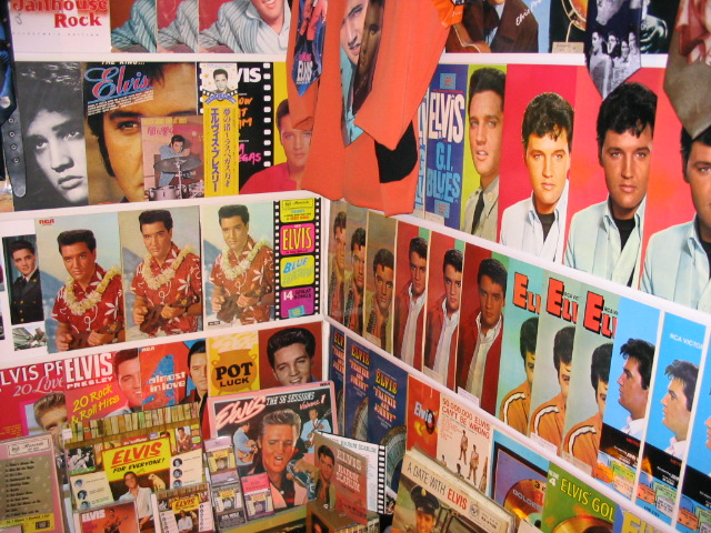 Kevin Wasley's Elvis Presley Museum.